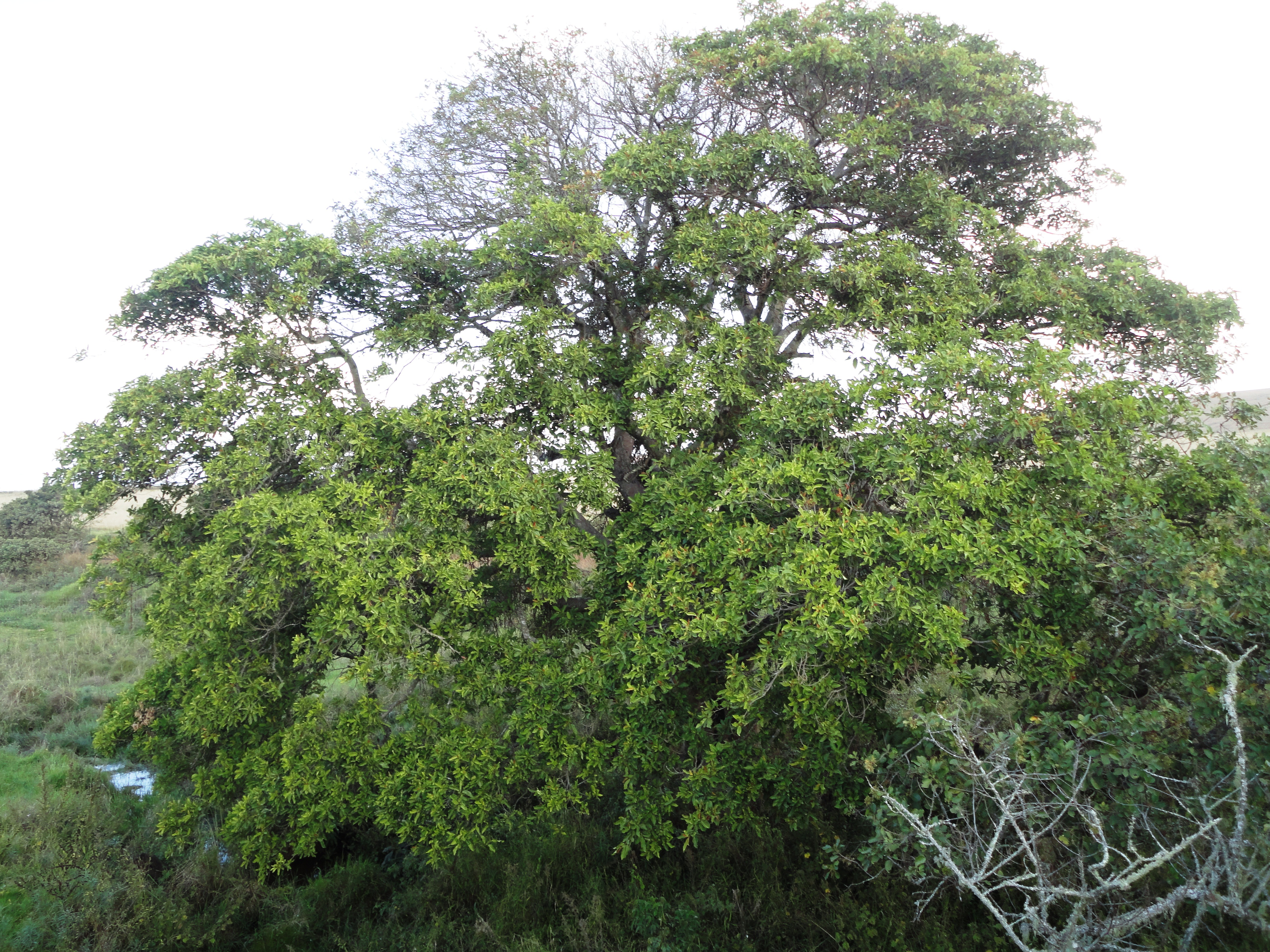 A mature Cape fig growing at 1,160 m above sea level, on a stream bank near Louwsburg, KwaZulu-Natal